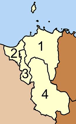 Map of Don Sak district, Surat Thani province, with the communes (tambon) numbered Don Sak (ดอนสัก) Chon La Kram (ชลคราม) Chai Ya Kram (ไชยคราม) Pak Prak (ปากแพรก)